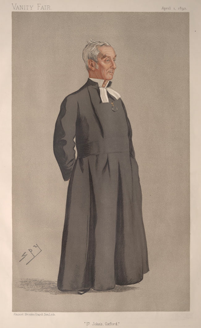 Men of the Day No.560: Caricature of The President of St John's College, Oxford (1871–1909). Rev. James Bellamy D.D. (1836-1909).. Caption reads: "St John's"